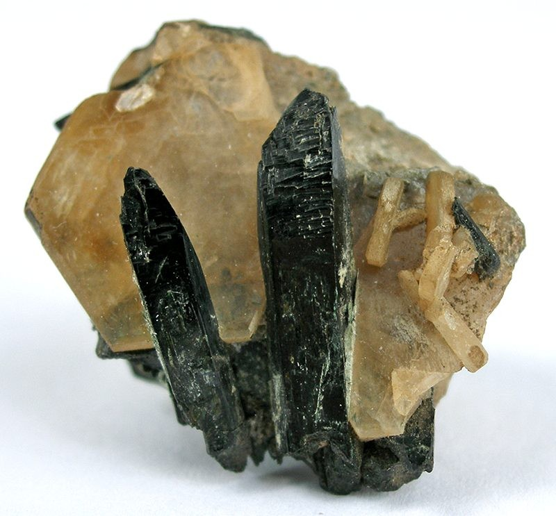 Catapleiite, Aegirine Locality: Narssârssuk (Narsarsuk), Igaliku (Igaliko), Narsaq, Kitaa (West Greenland) Province, Greenland (Locality at ) Size: 2.8 x 2.2 x 1.4 cm. From the John Ydren collection, this is an outstanding example of a rare locality specimen of catapleiite from the unusual Greenland mineral deposits. The specimen is a single vertical crystal crossed by aegirines, and fully terminated atop. We are all familiar with large crystals of this size from Canada, but from Greenland this is much less common and it’s an attractive piece, as well.